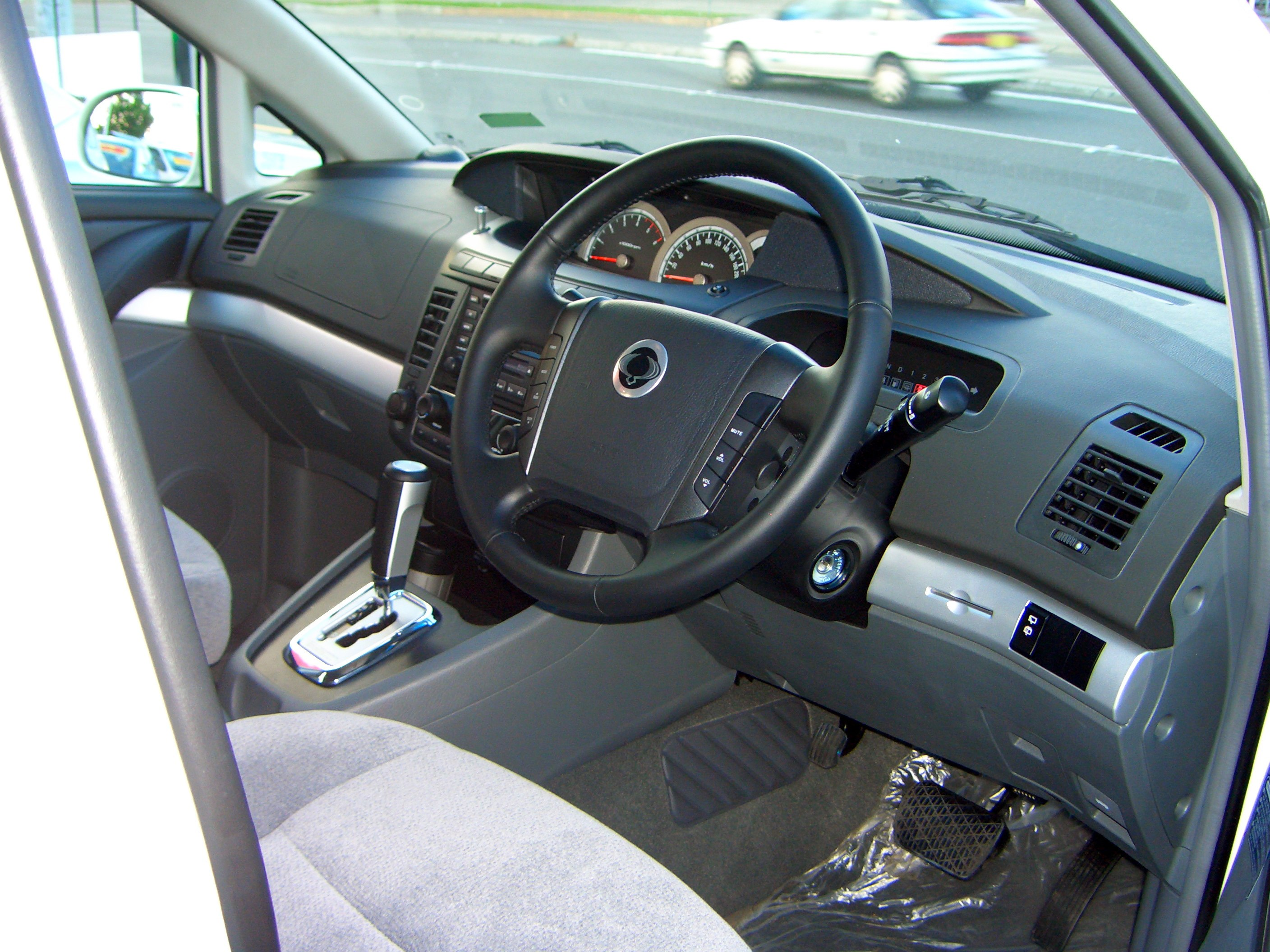 Interior of a 2005 SsangYong Stavic.